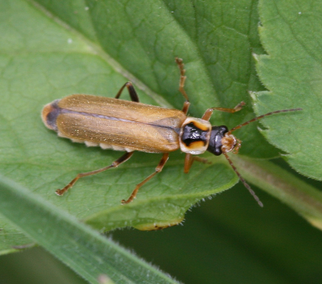 Cantharis decipiens, a soldier beetle.